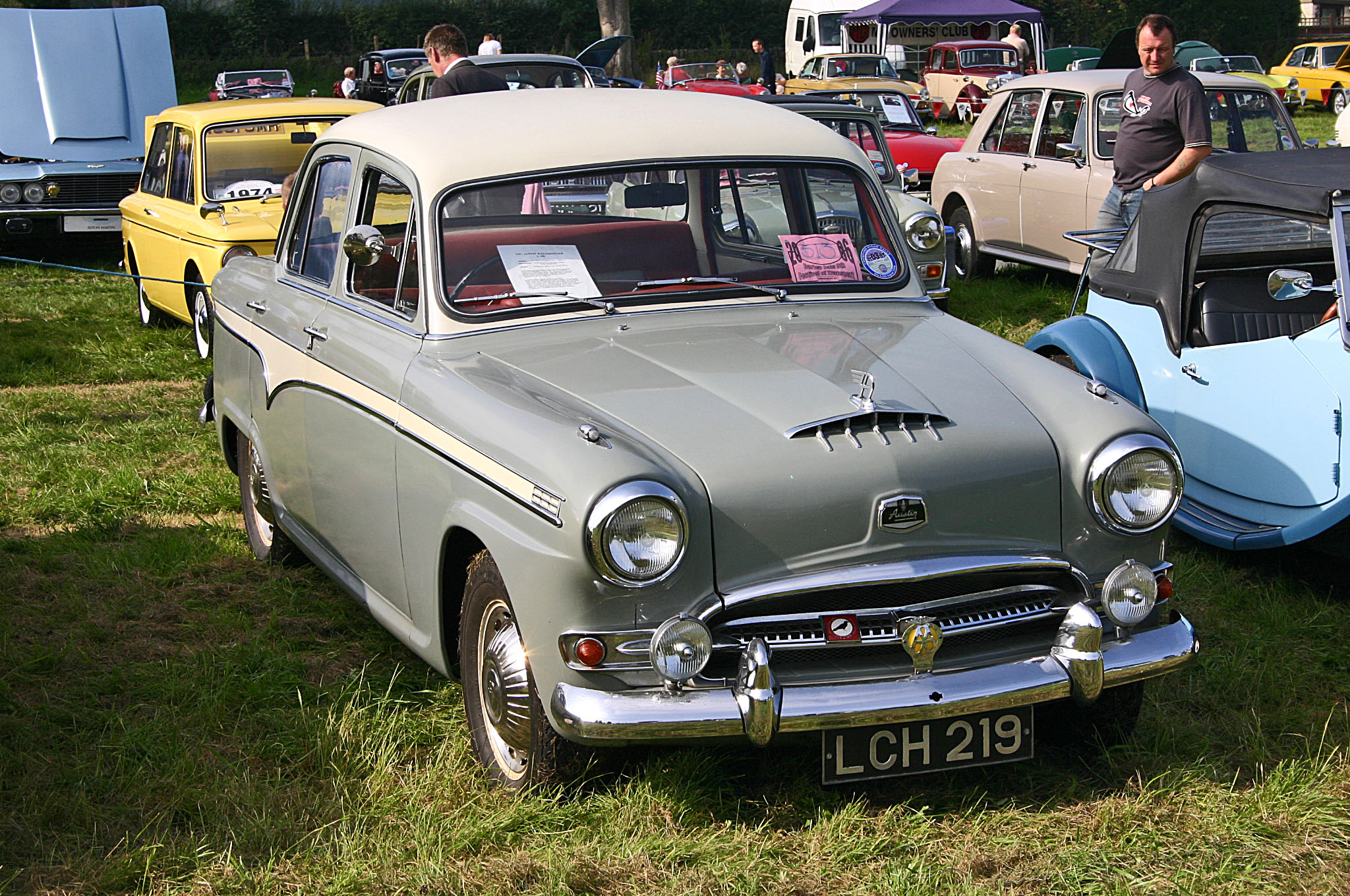 Austin A105 Westminster, the 6cylinder A55 Cambridge. Longer bonnet, bigger engine, better car ?